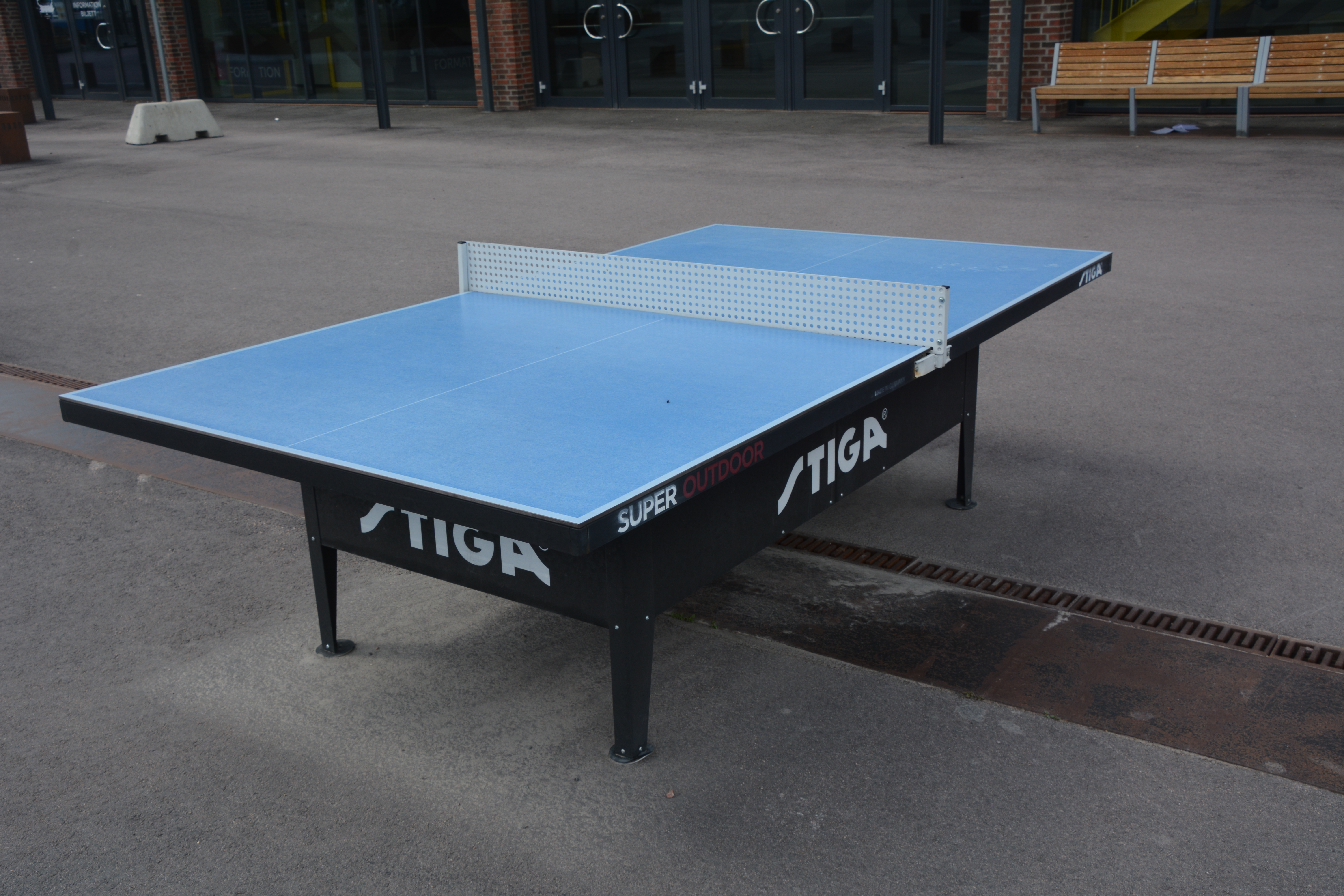 Stiga Outdoor Table tennis table